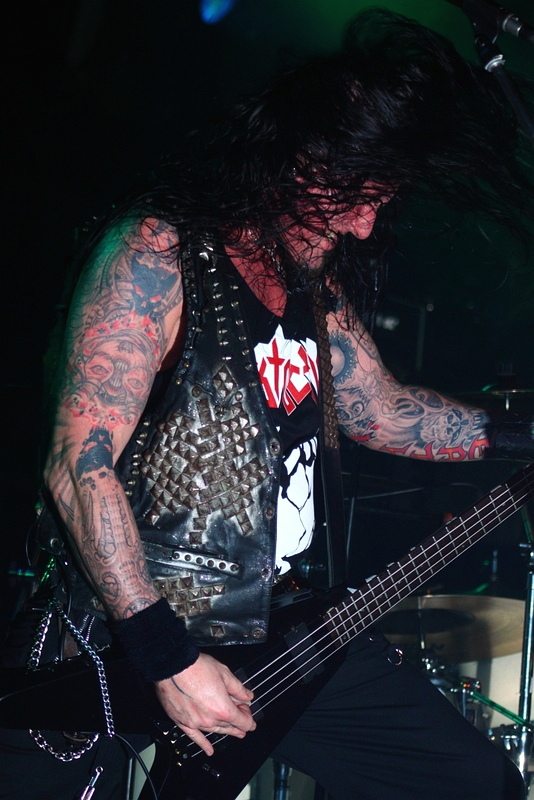 Marcel Schmier Schirmer of Destruction, Brno, Fleda, 12.03.2011